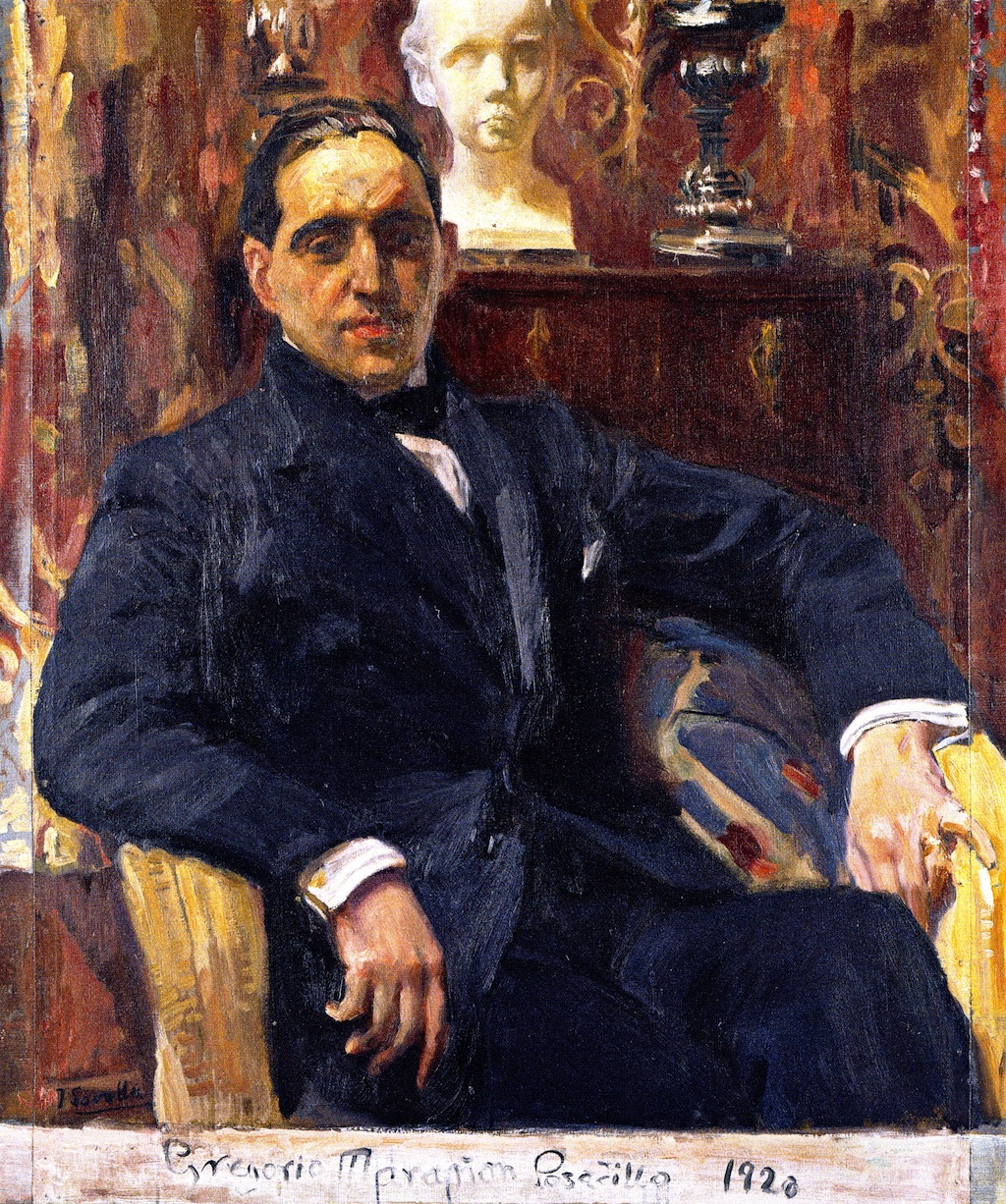 Gregorio Marañón Posadillo.